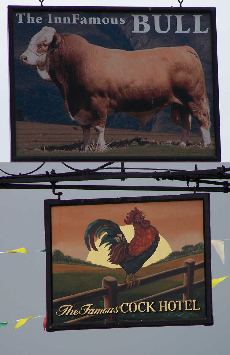 Stony Stratford, pub signs of The Bull Inn and The Cock Hotel, where the phrase Cock and bull story allegedly was coined Photo Cnyborg, July 2005